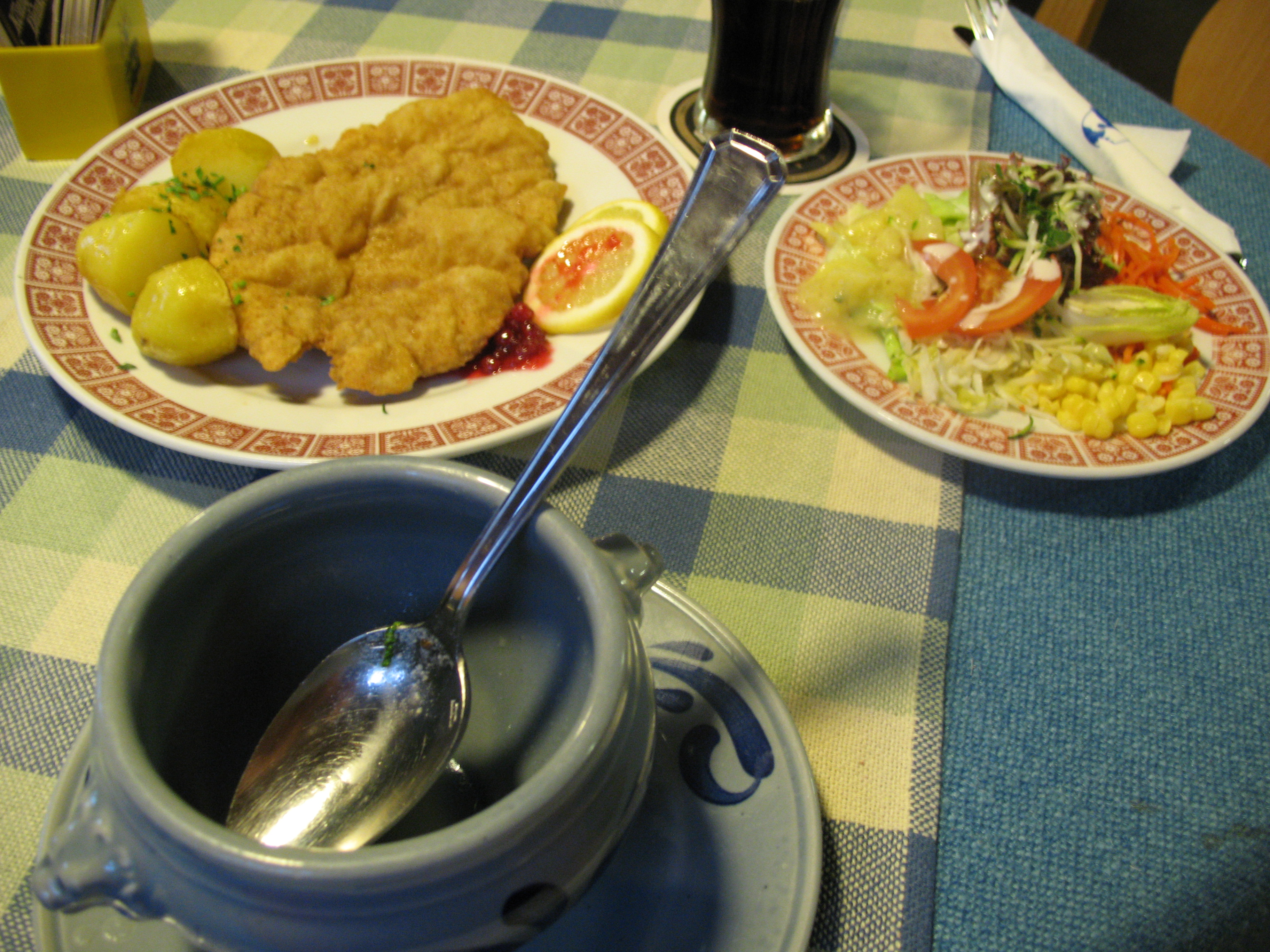 Vienna Pork Cutlet, Obertraun, Austria